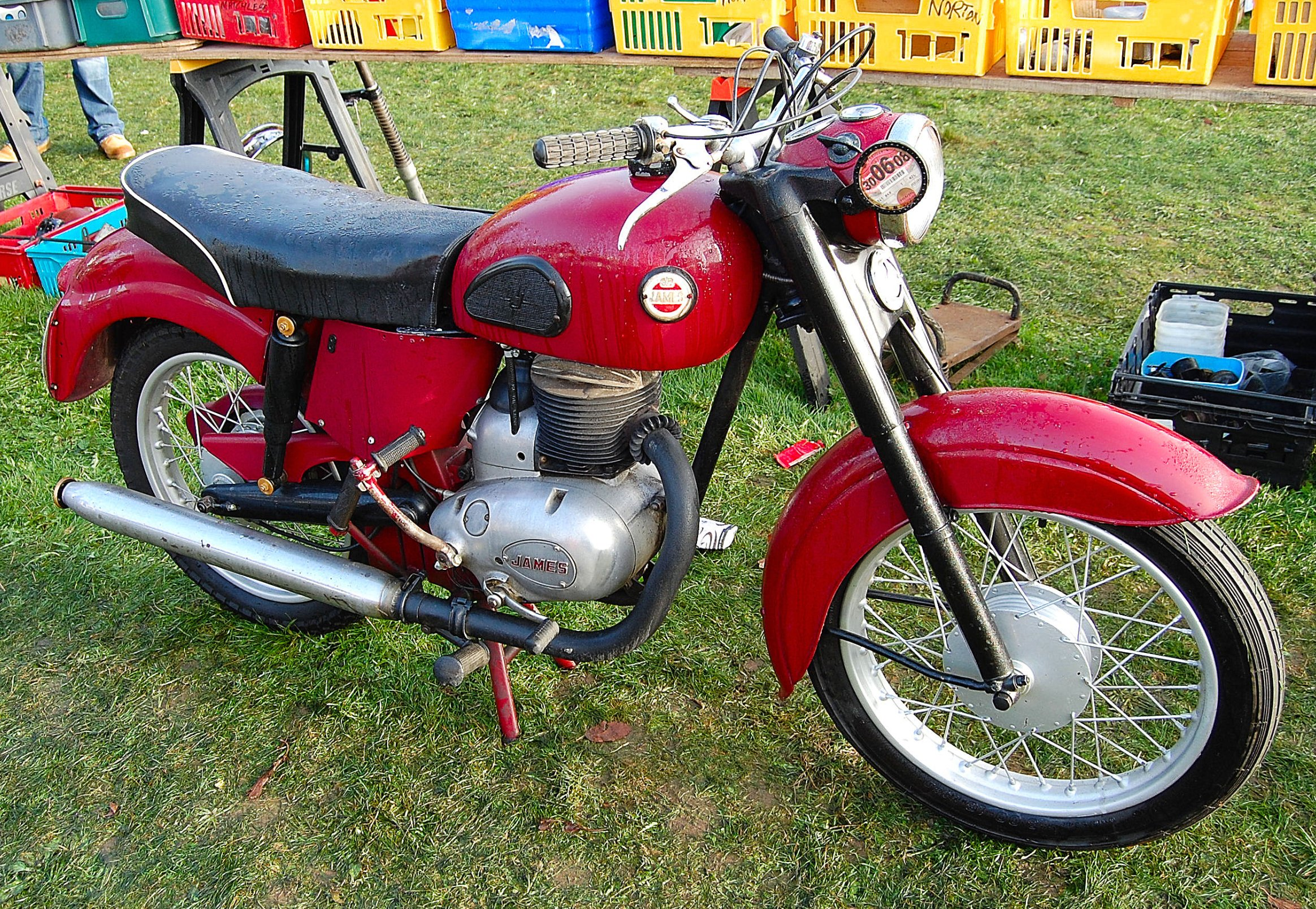 The James Cycle Co Ltd., Greet, Birmingham, England, was one of many famous British cycle and motorcycle makers centred around the English Midlands, particularly Birmingham. Most of their light motorcycles used Villiers and later AMC two-stroke engines. James was taken over by Associated Motor Cycles in 1951 and combined with Francis Barnett in 1957. James were prolific bicycle and motorcycle manufacturers from 1897 to 1966, when they became casualties of the decline in the British motorcycle industry under pressure from Japanese imports.